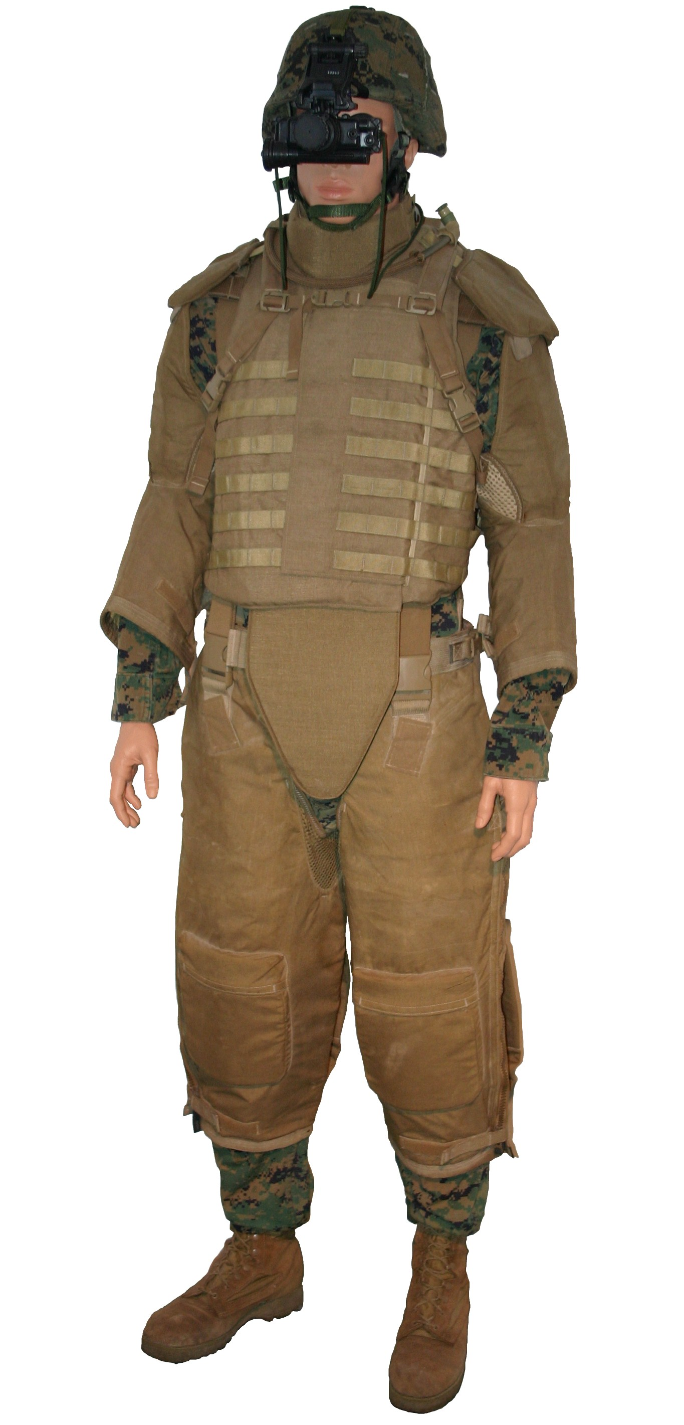 Mannequin of a USMC Turret Gunner wearing the OTV and an additional ballistic protection called "Quadard IV". This kind of protection was usualy worn by USMC turret gunners in Iraq (around 2004-2008. to protect them against small arms fire and fragmentations during convoys.